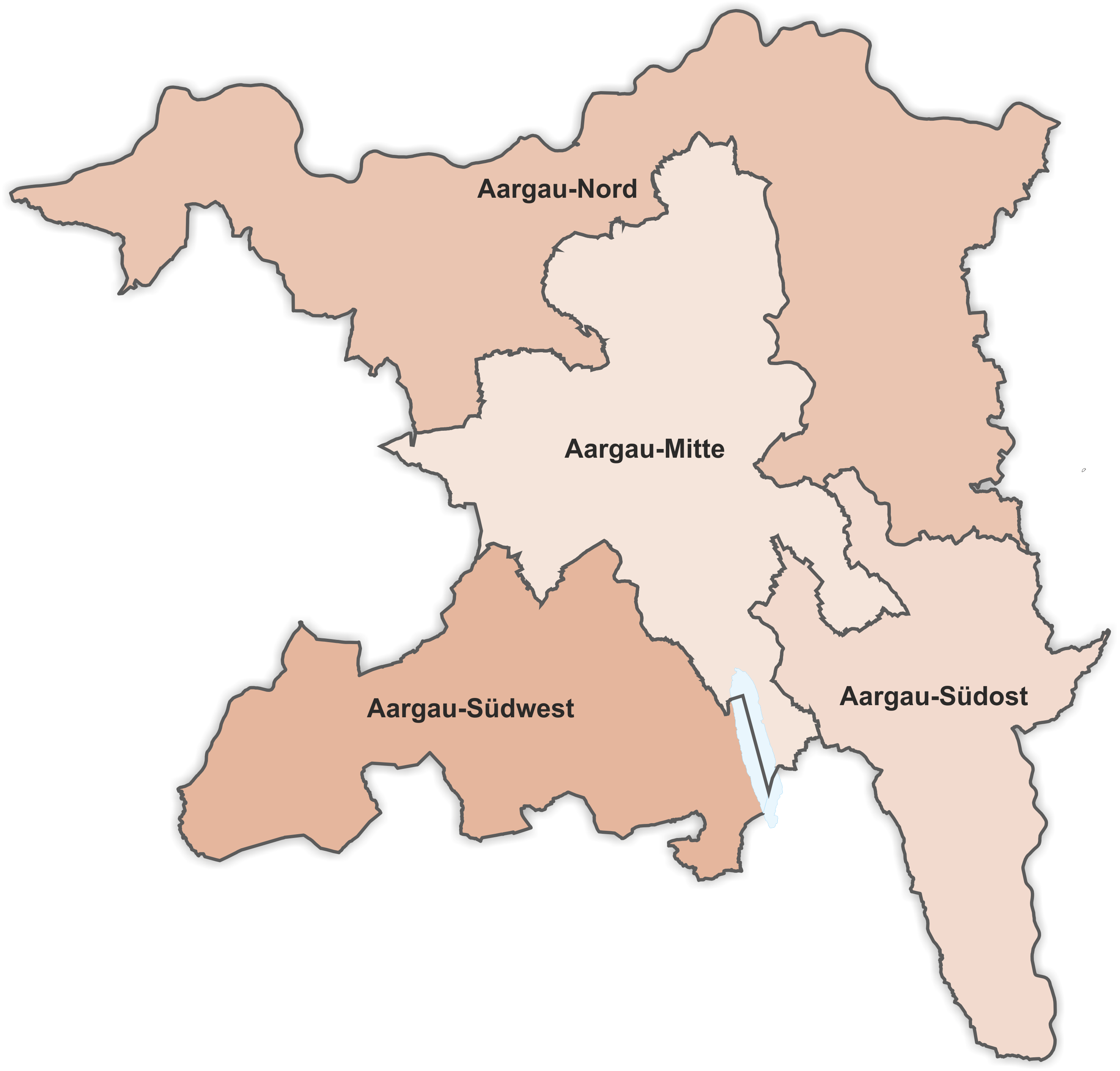 National council constituencies in the canton of Aargau from 1890 to 1908